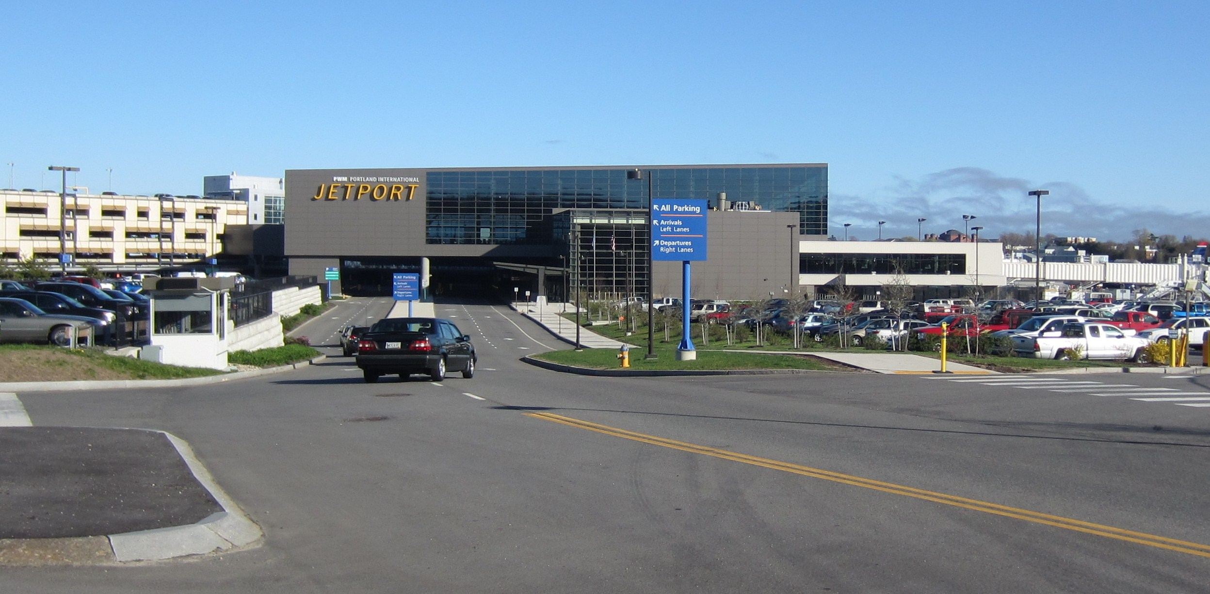 Picture of the new terminal at Portland Jetport.